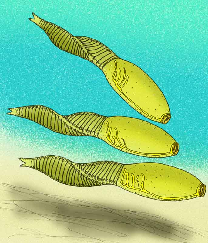 My reconstruction of the Vetulicolian species Vetulicola Banffia constricta, from the Middle Cambrian Burgess Shale Fauna of British Columbia